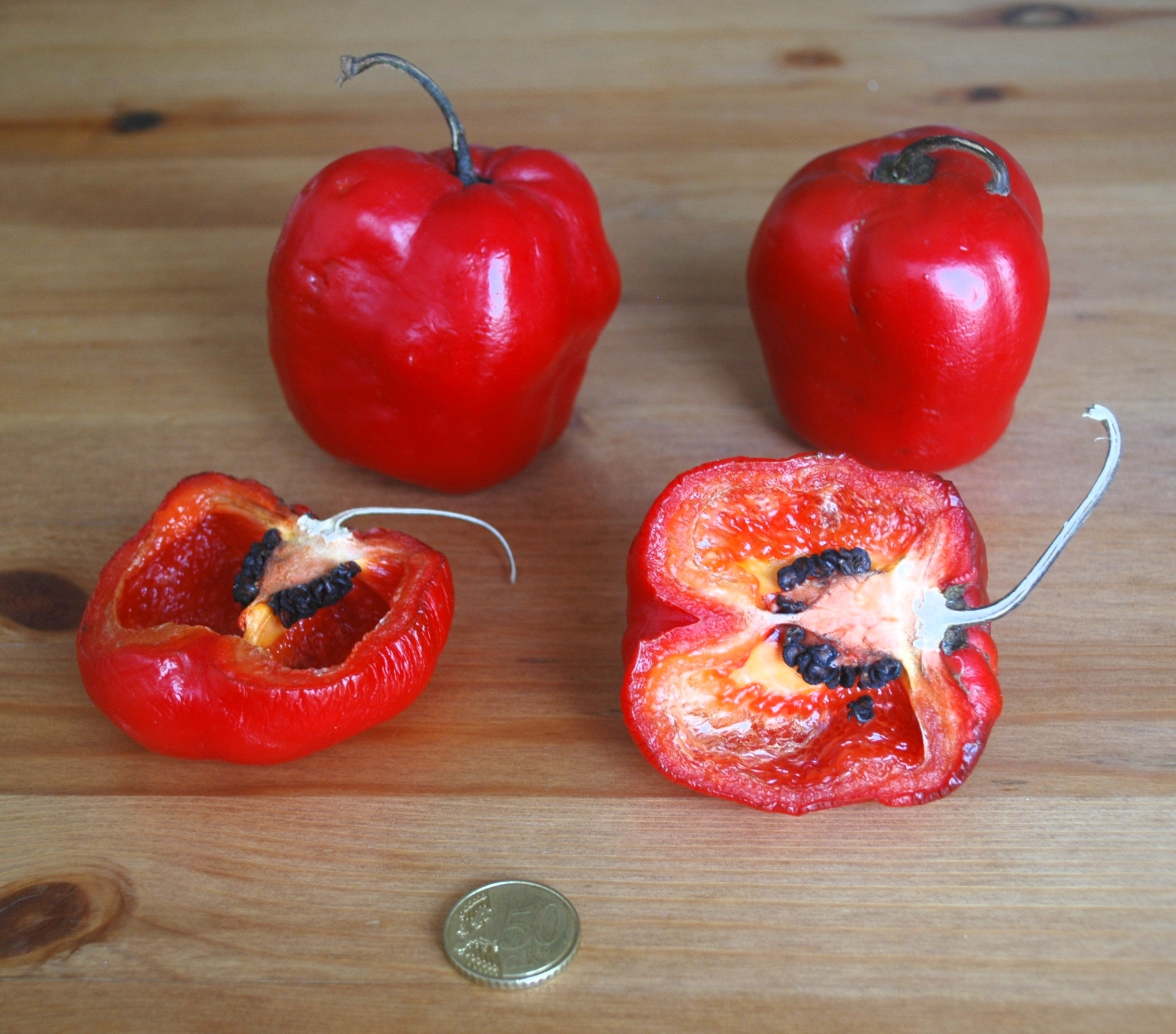 Capsicum pubescens (Rocoto pepper). Fruits and seeds.